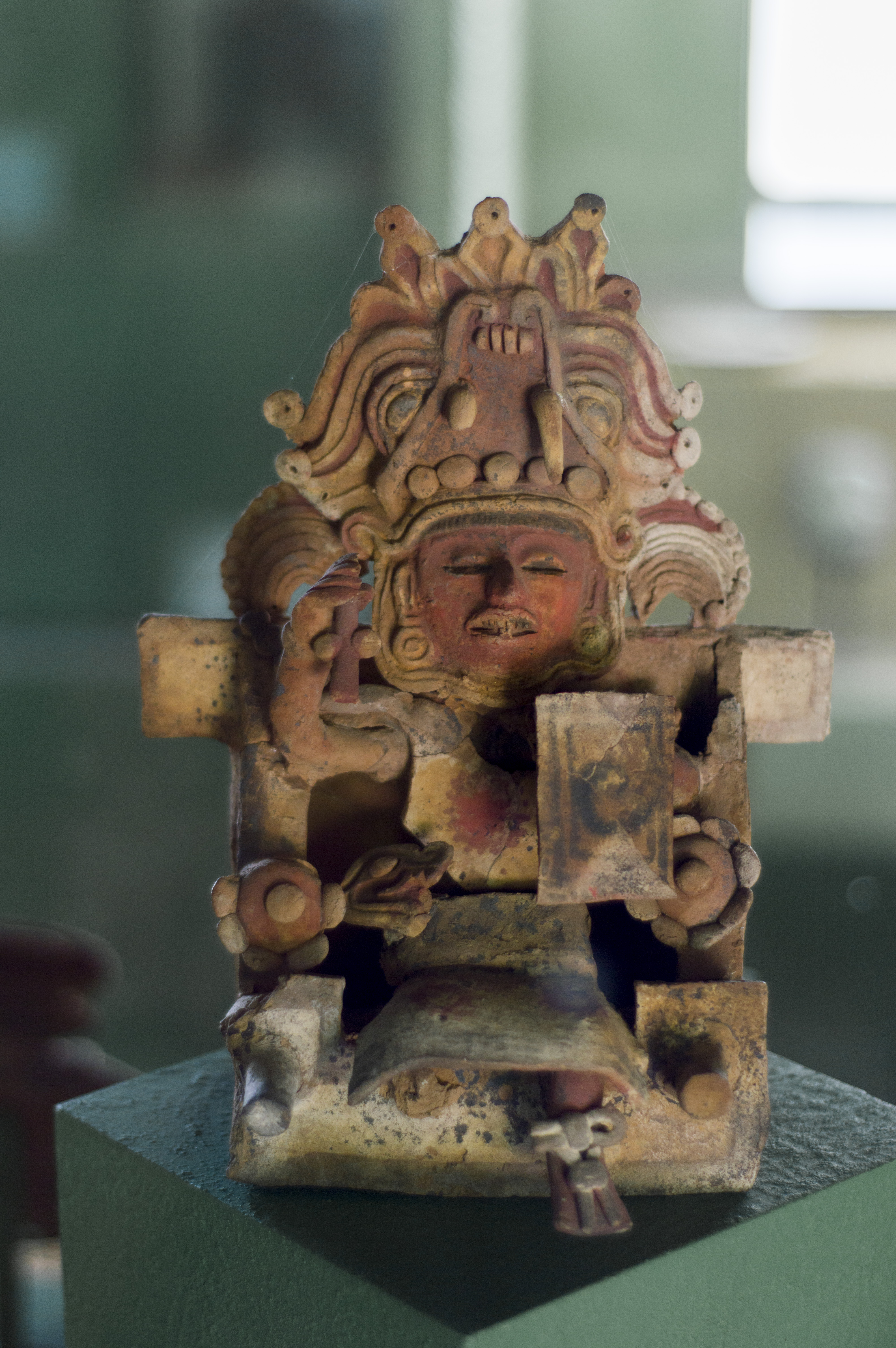 Clay figurine found in the archaeological site of Xochitecatl